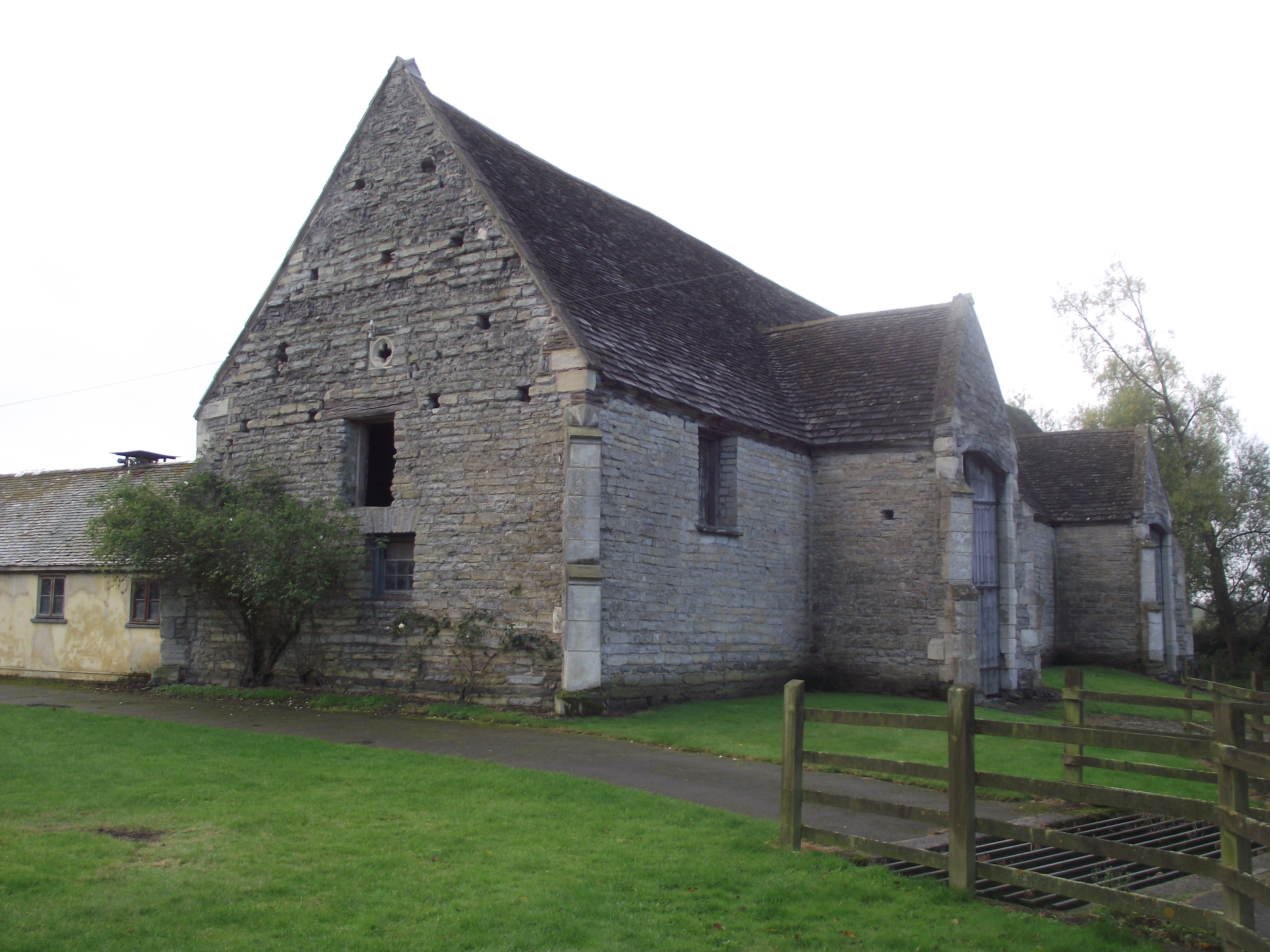 This is a picture of the tithe barn at Ashleworth in Gloucestershire.